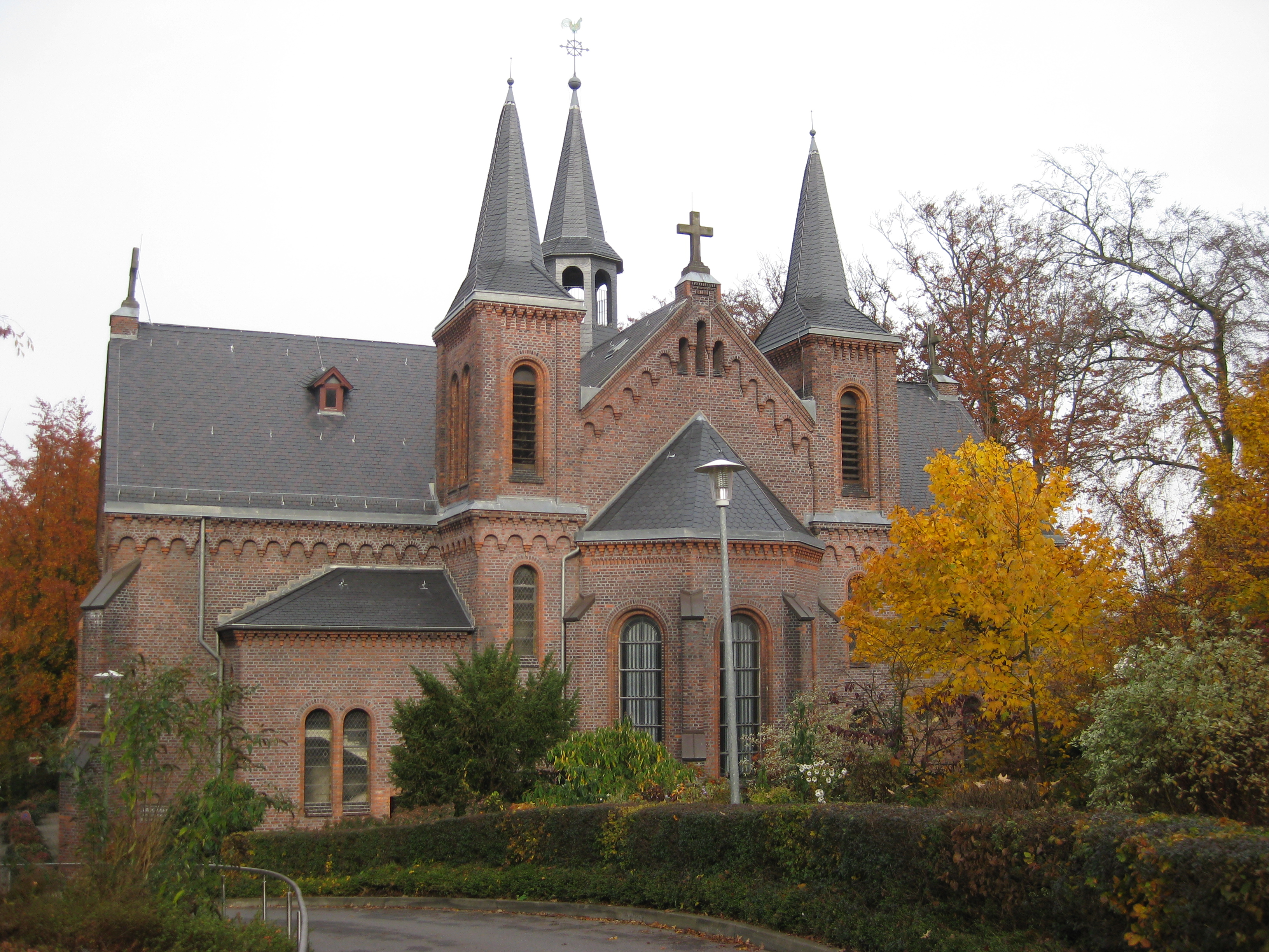 lutheran parish church Zionskirche in Bielefeld-Bethel, built in 1884